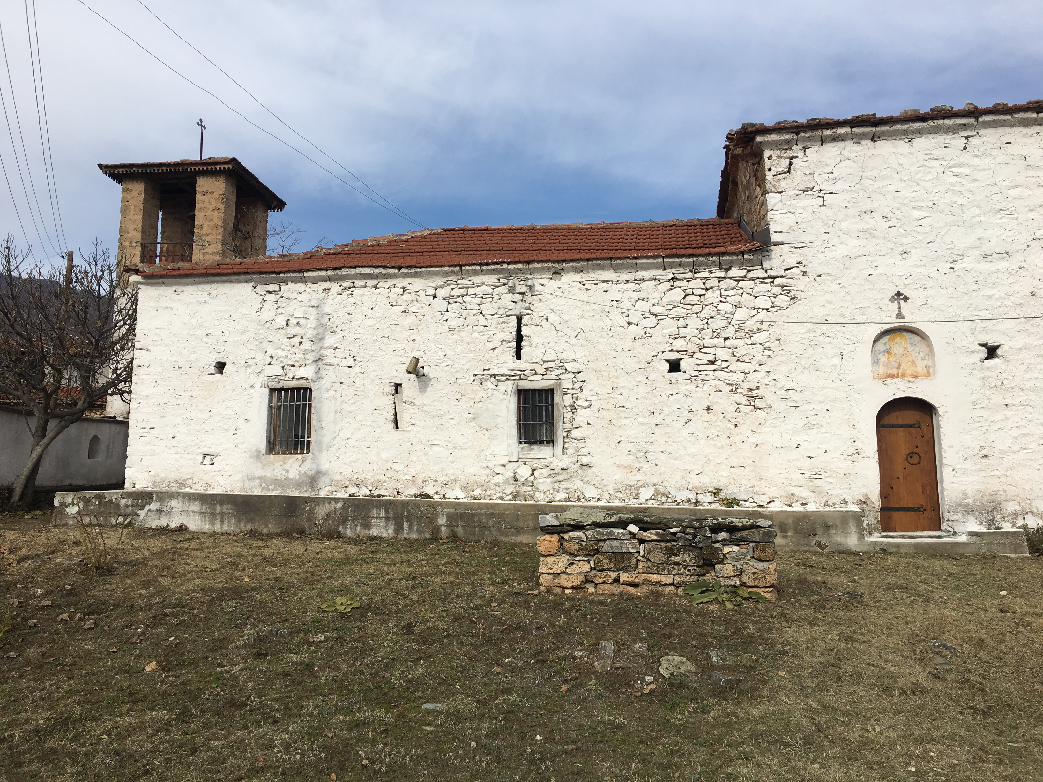 St. Athanasius Church in the village of Nikodin